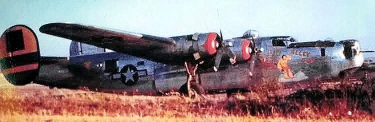 465th Bombardment Group Consolidated B-24H-15-CF Liberator 41-29347 "Alley Ooop" at Pantanella Airfield, Italy. The red on the engine cowlings identifies the plane as assigned to the 780th Bombardment Squadron. This plane was lost on July 28, 1944, on a mission over Yugoslavia. (MACR 7106)